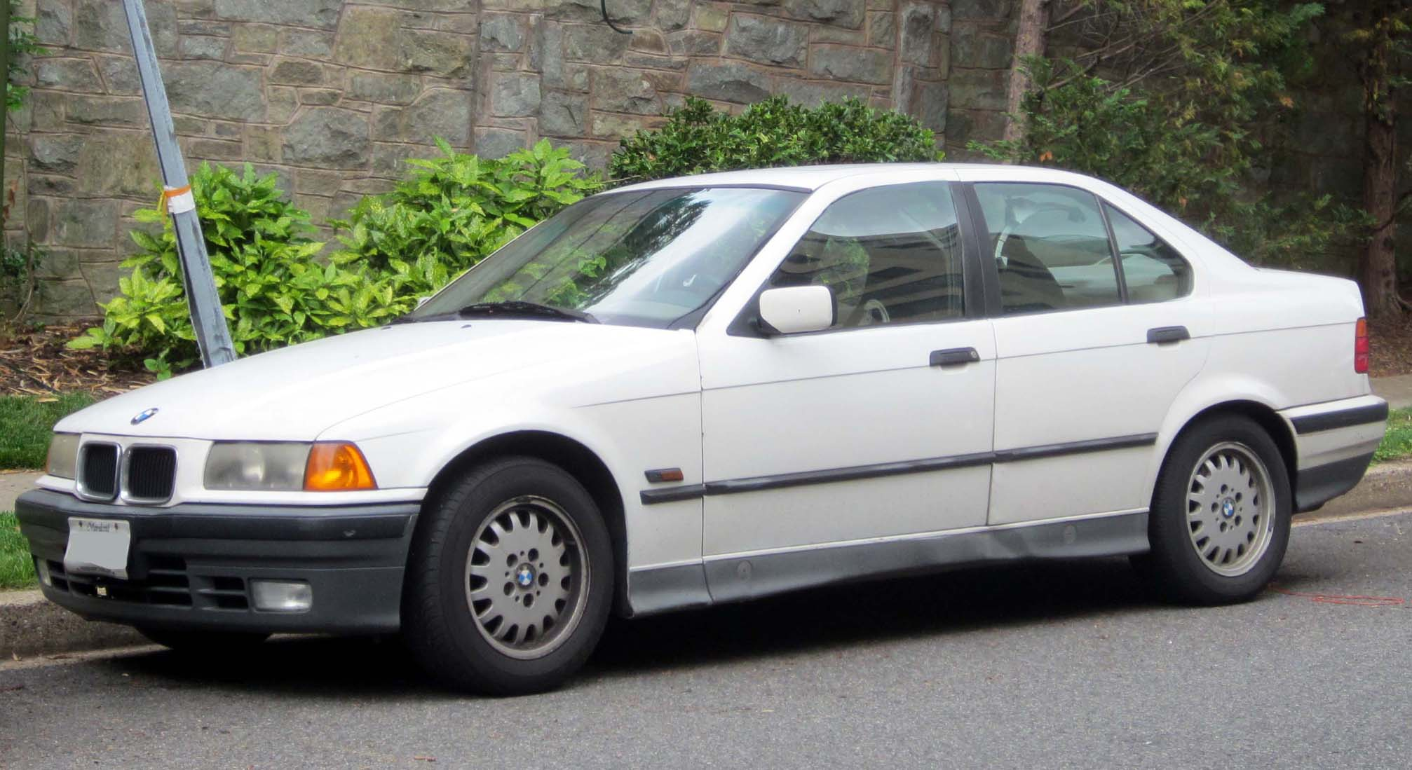 BMW 3-Series photographed in Washington, D.C., USA.